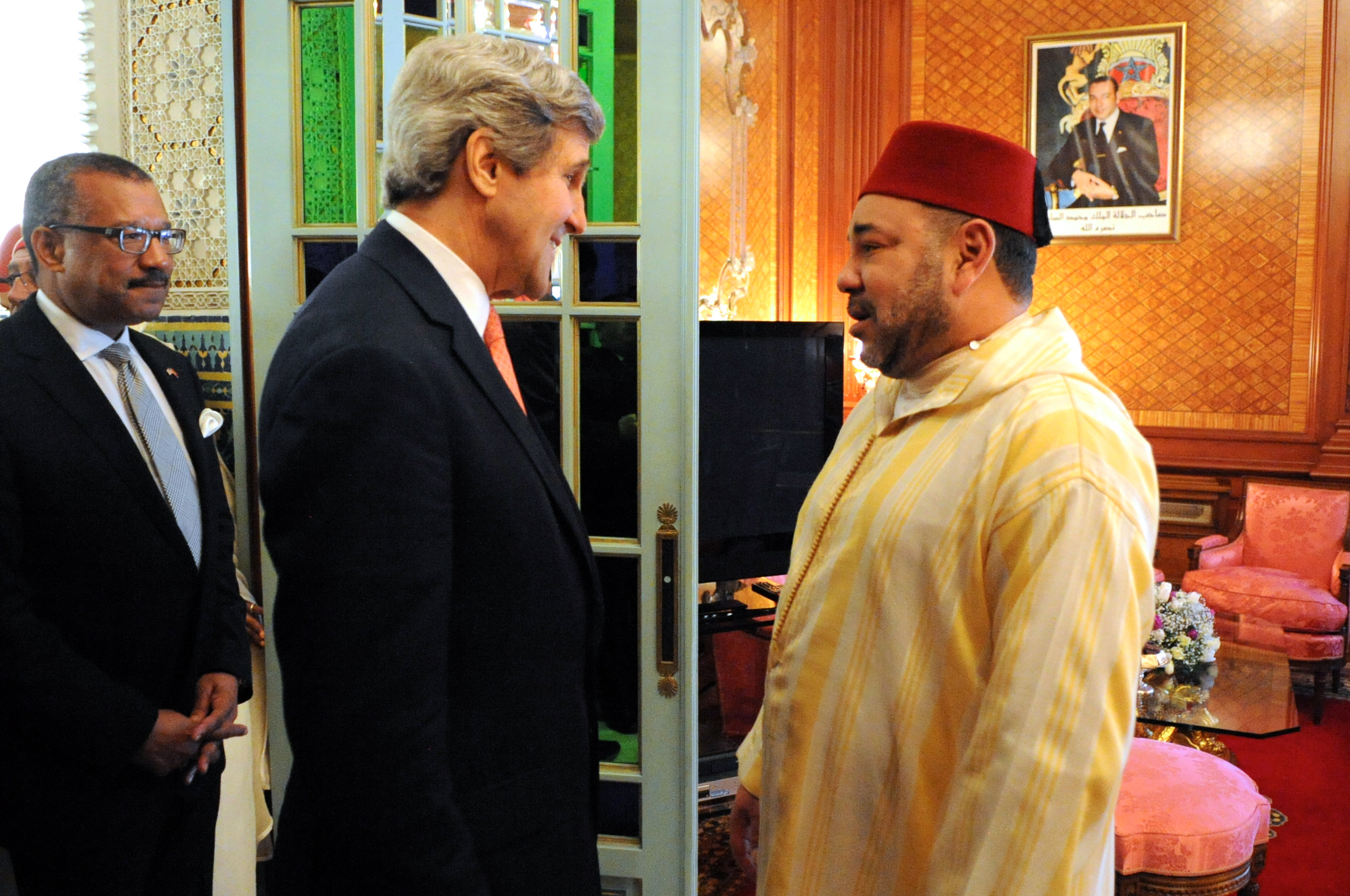 U.S. Secretary of State John Kerry, flanked by U.S. Ambassador to Morocco Dwight Bush, is greeted by King Mohammed VI of Morocco at the start of a bilateral meeting in Casablanca on April 4, 2014. [State Department photo/ Public Domain]